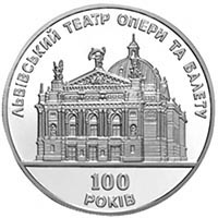 Reverse of the 2000 commemorative nickel silver 5 Hryvnia coin "100th Anniversary of the Lviv Theatre of Opera and Ballet", National Bank of Ukraine.